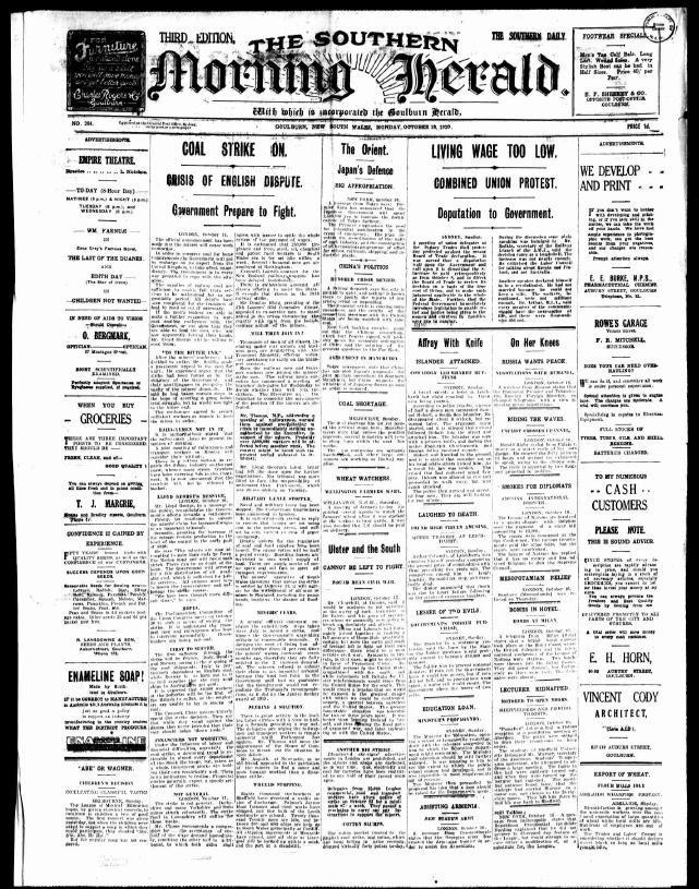 Old Australian newspaper cover page.